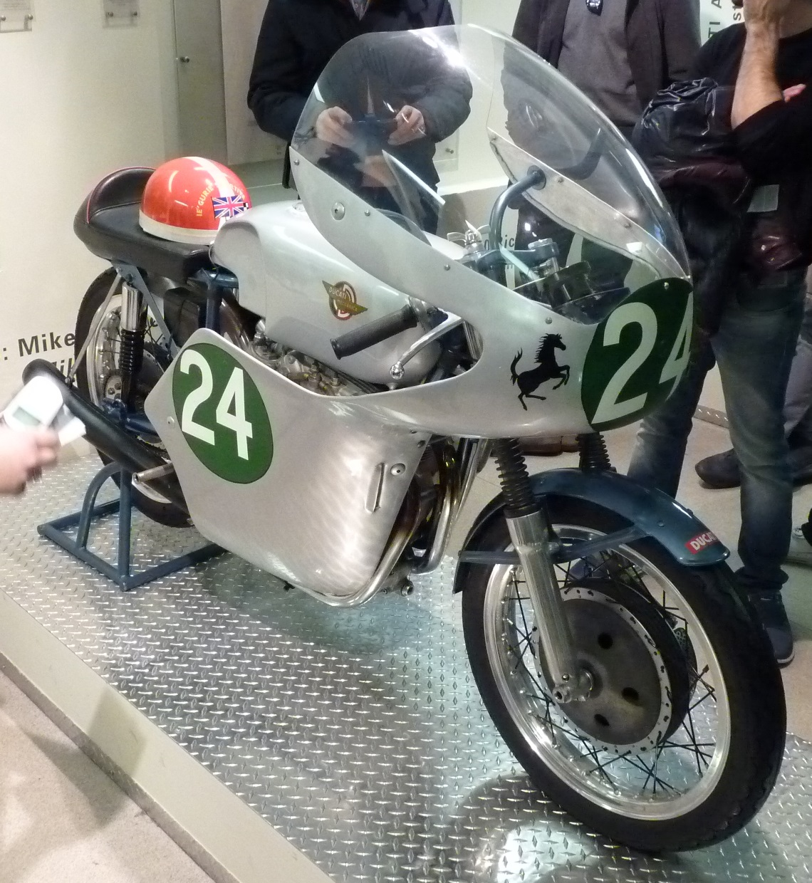 Ducati 250 Parallelo Desmo as ridden by Mike Hailwood during the 1960 Grand Prix World Championship. Bologna, Museo Ducati.